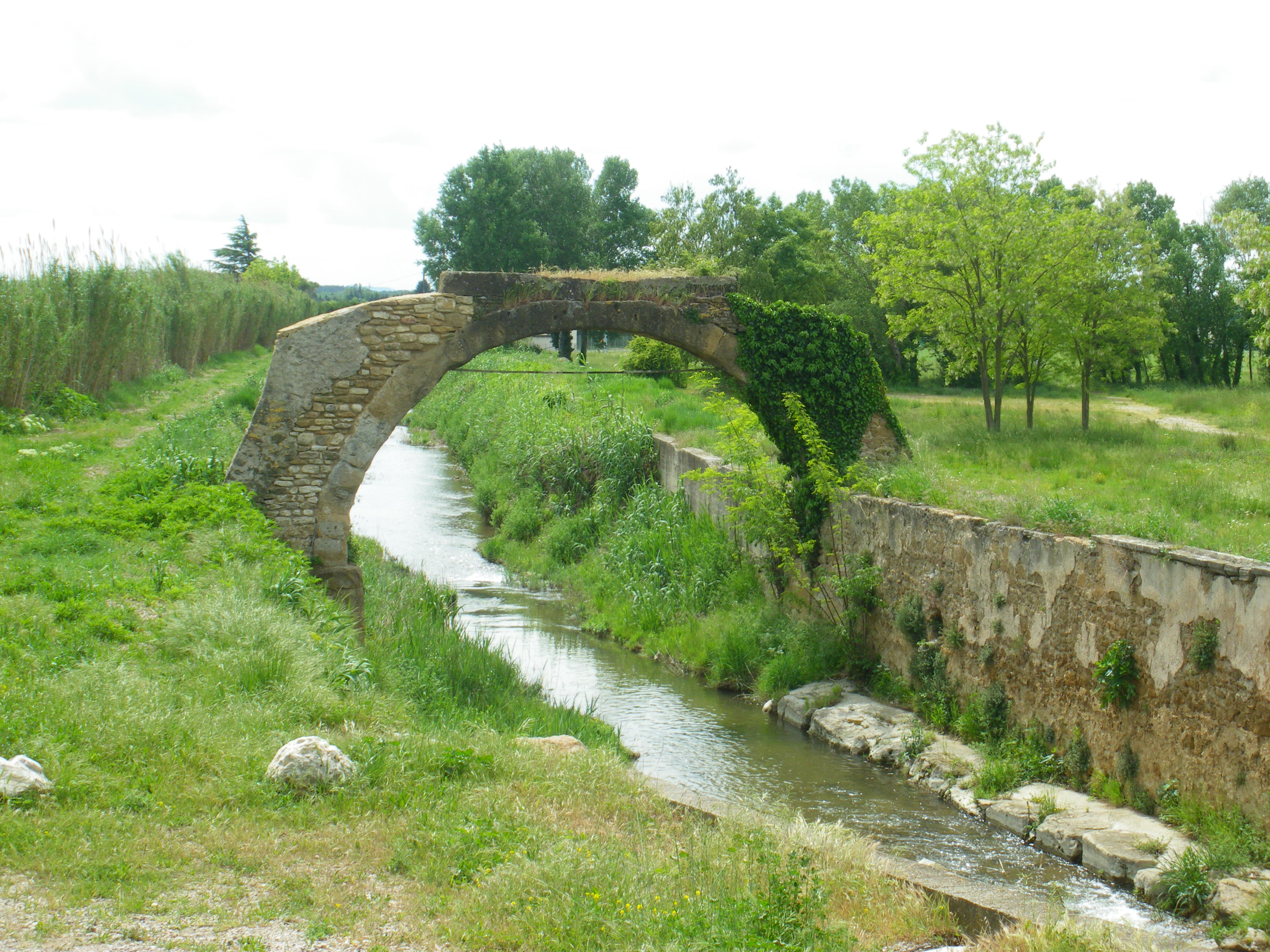 Brégoux river in Aubignan, Vaucluse, France